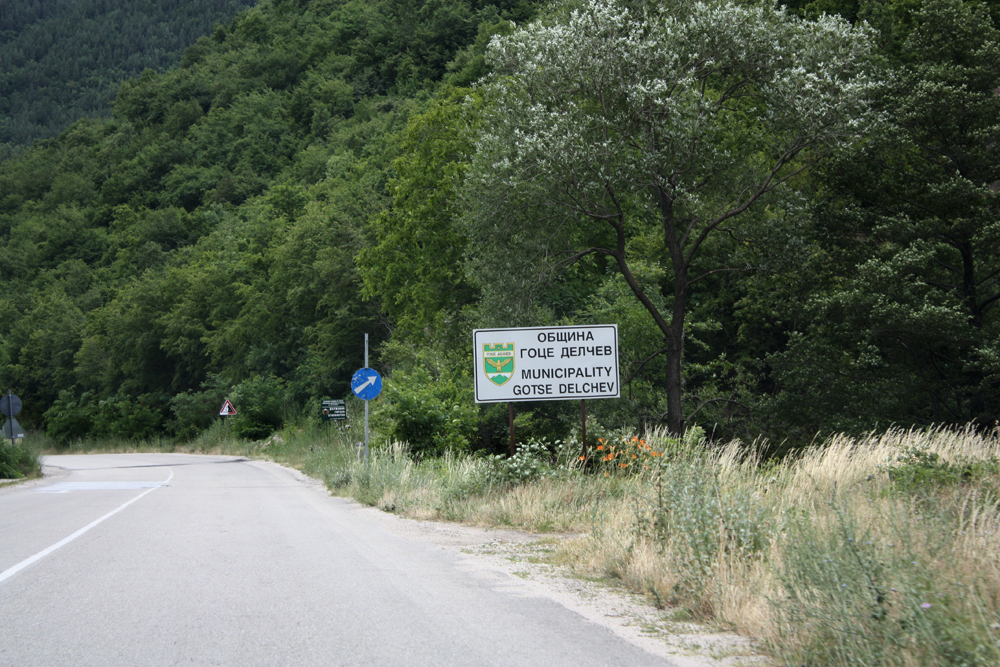 Municipality Gotse Delchev board on the road from Razlog to Gotse Delchev town